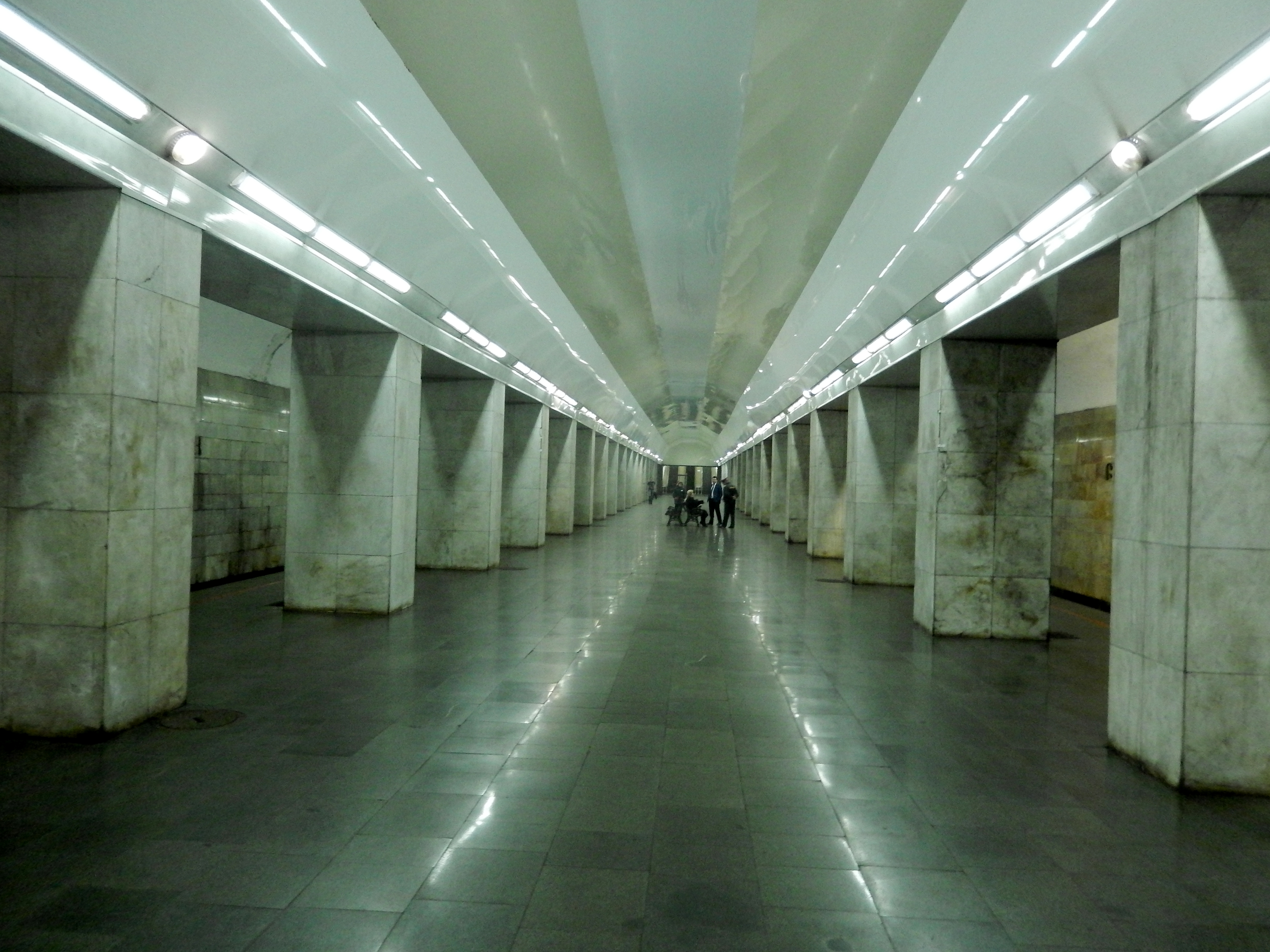 Marshal Baghramyan Metro Station